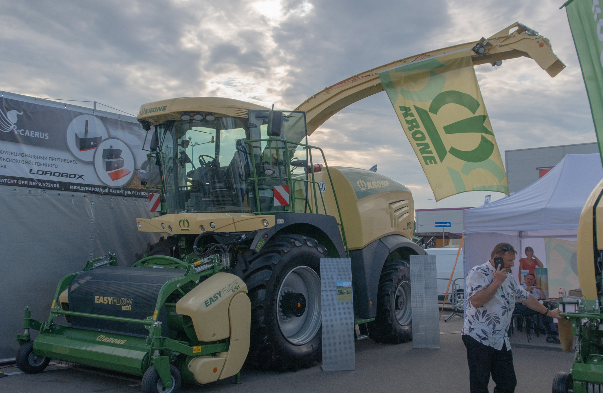 Krone vehicle. Photo taken at Belagro-2019 exhibition (Minsk district, Belarus)